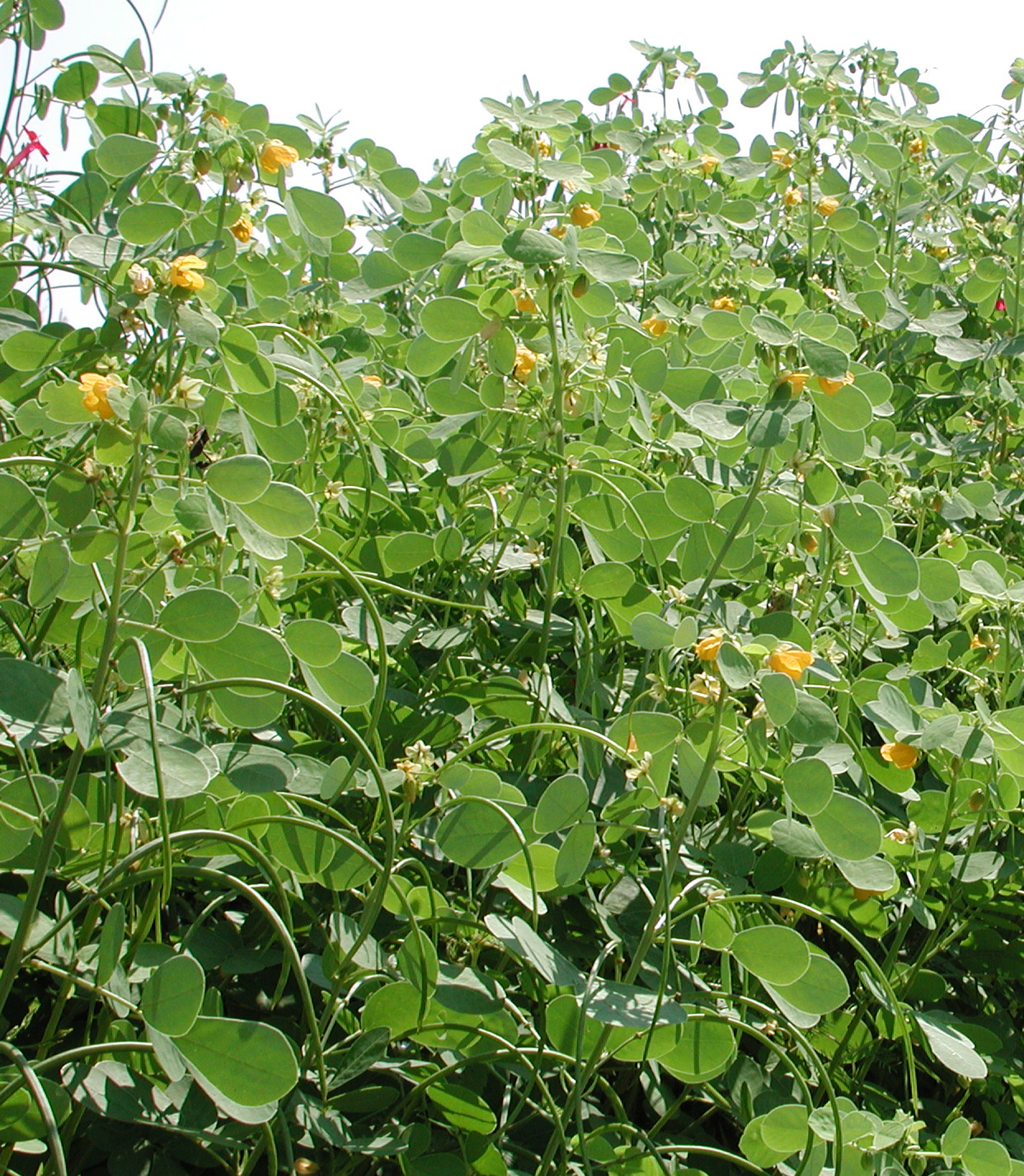 Sicklepod is an invasive weed in North America Image copyleft: Image taken by me, released under GFDL, Pollinator 03:05, 25 January 2006 (UTC)